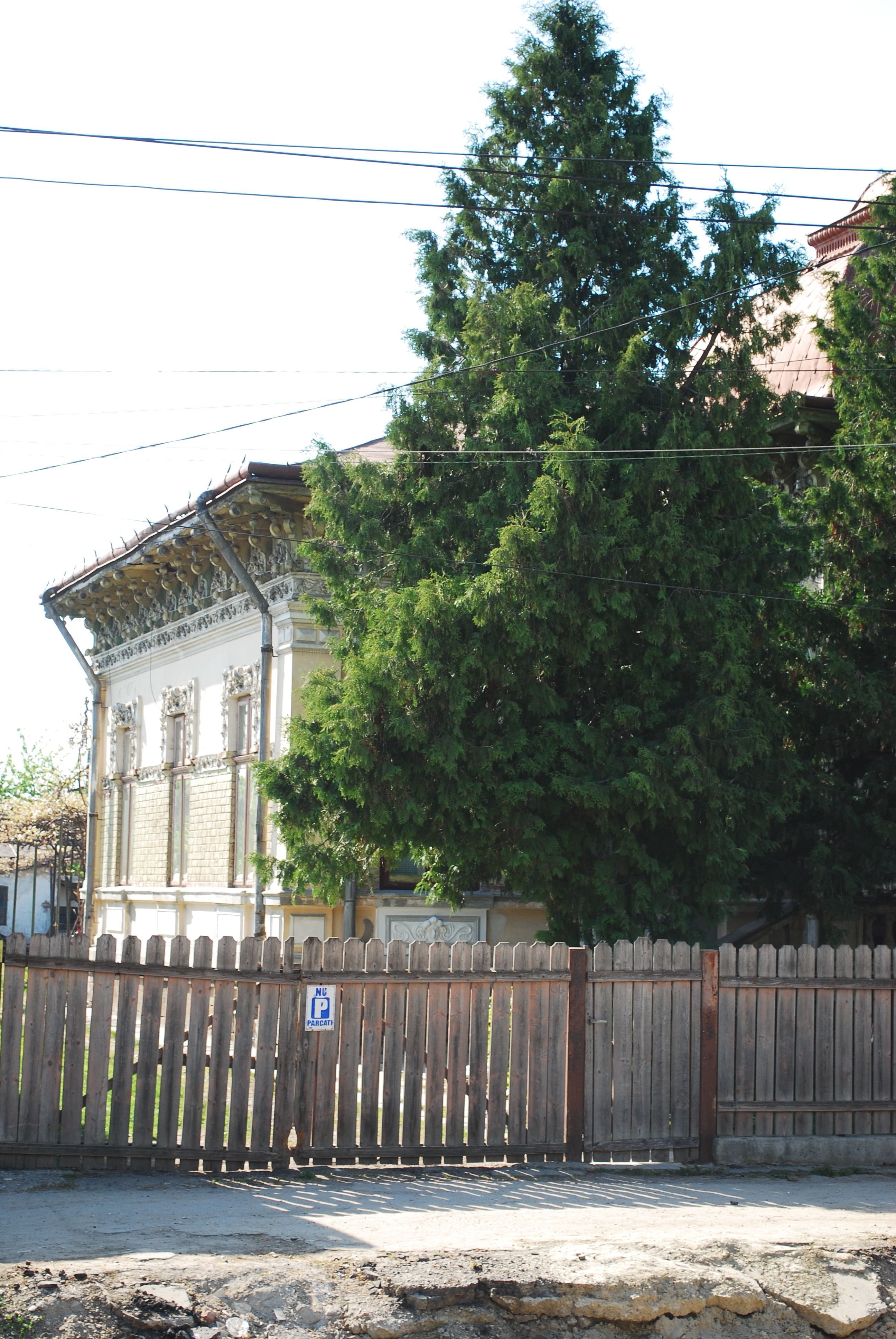 Swiss house in Roman, Neamț County, RomaniaRomână: Casa Elvețiană din Roman, județul Neamț, România